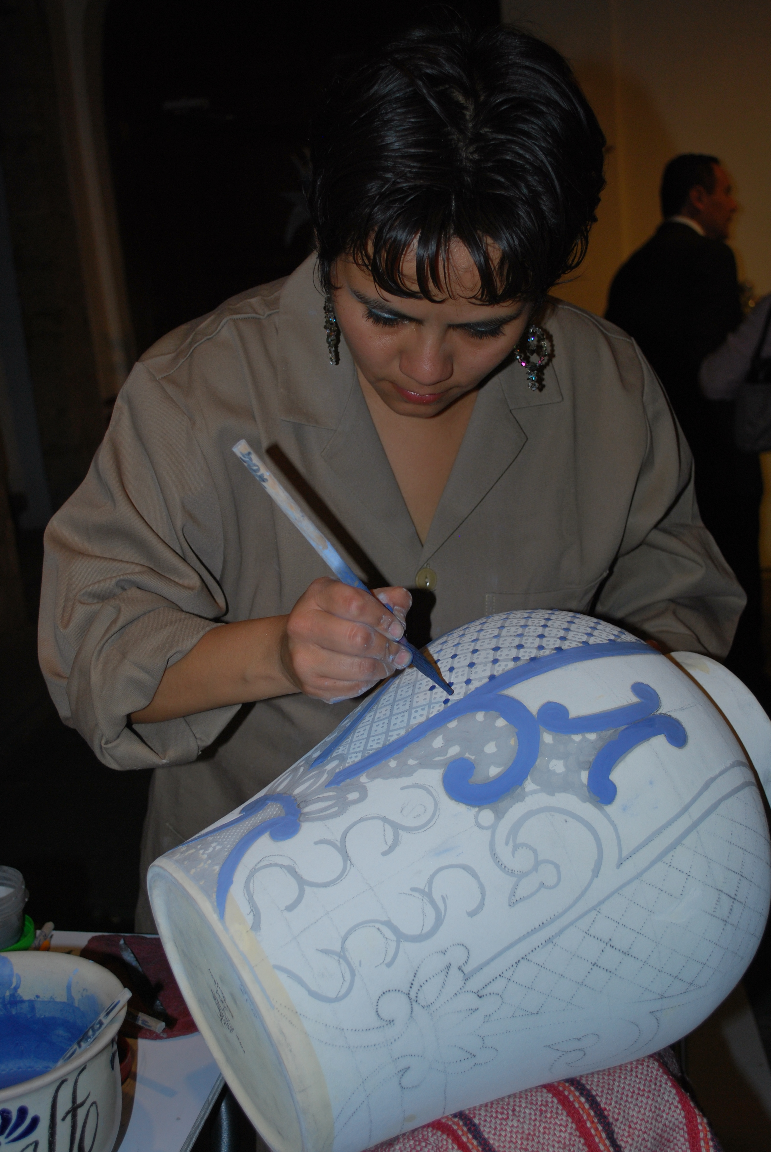 Artisan demonstration at the opening of El cinco de mayo de 1862. Uriarte Talavera Contemporánea at the Franz Mayer Museum